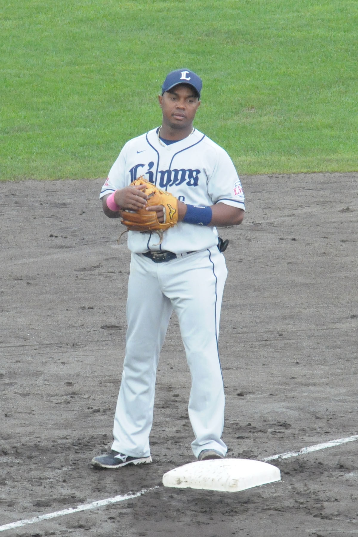 Esteban Germán, infielder of the Saitama Seibu Lions, at Akita Prefectural Baseball Stadium.